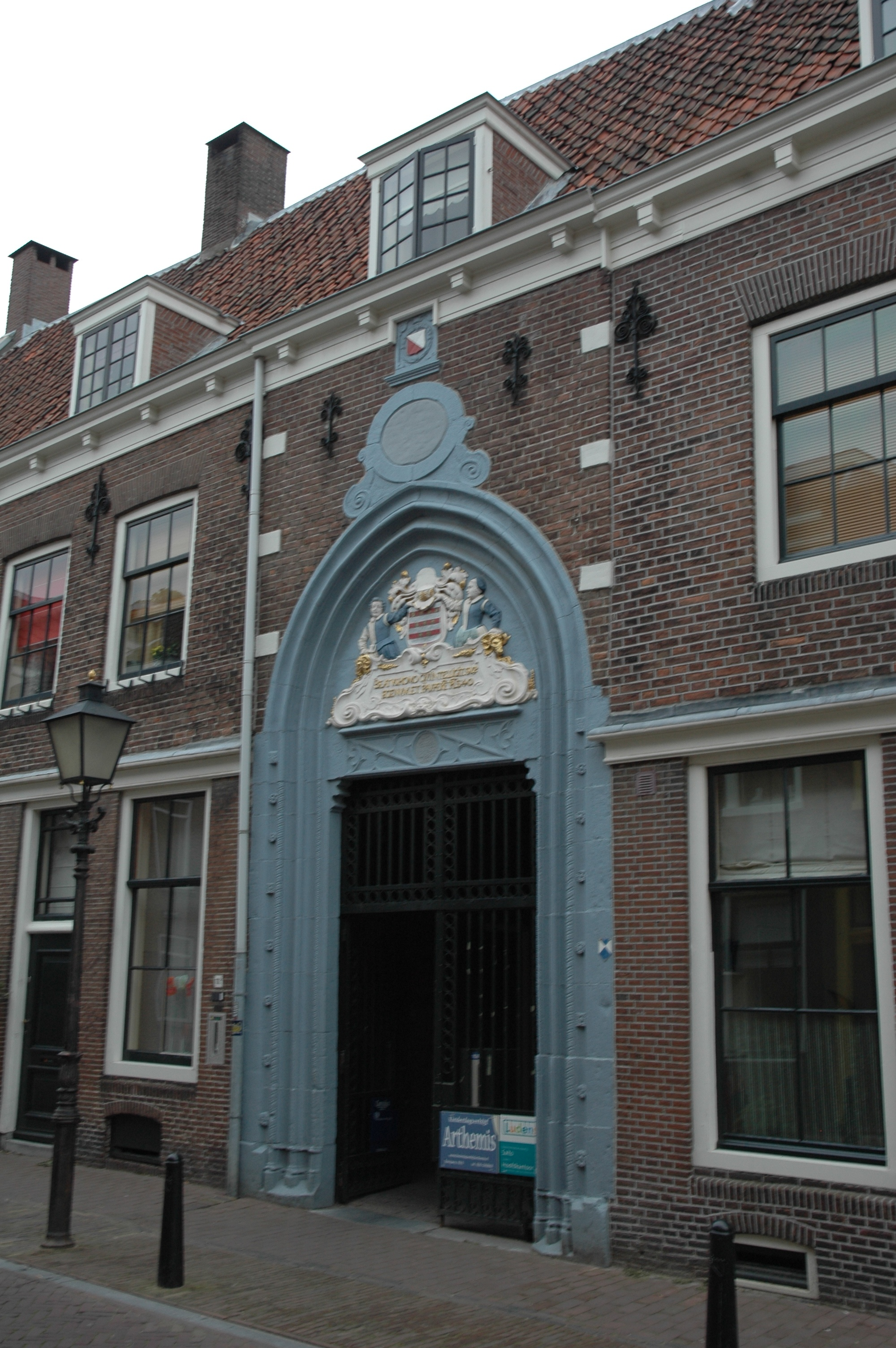 Gate to the former orphanage, next to Springweg 102, Utrecht, The Netherlands